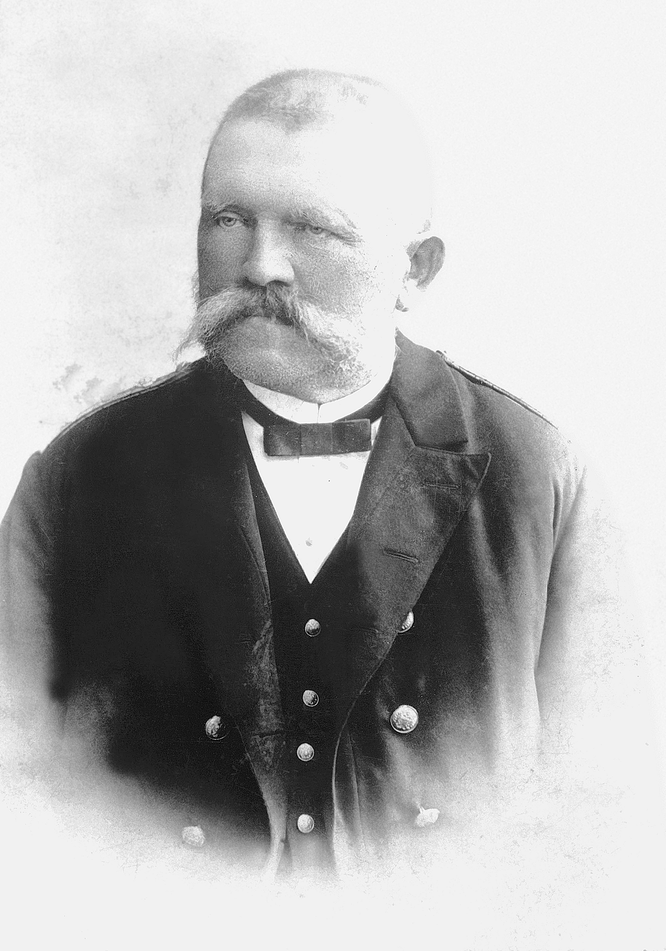 Portrait photograph of Alois Hitler né Schicklgruber (7 June 1837 – 3 January 1903), an Austrian civil servant and the father of Adolf Hitler.